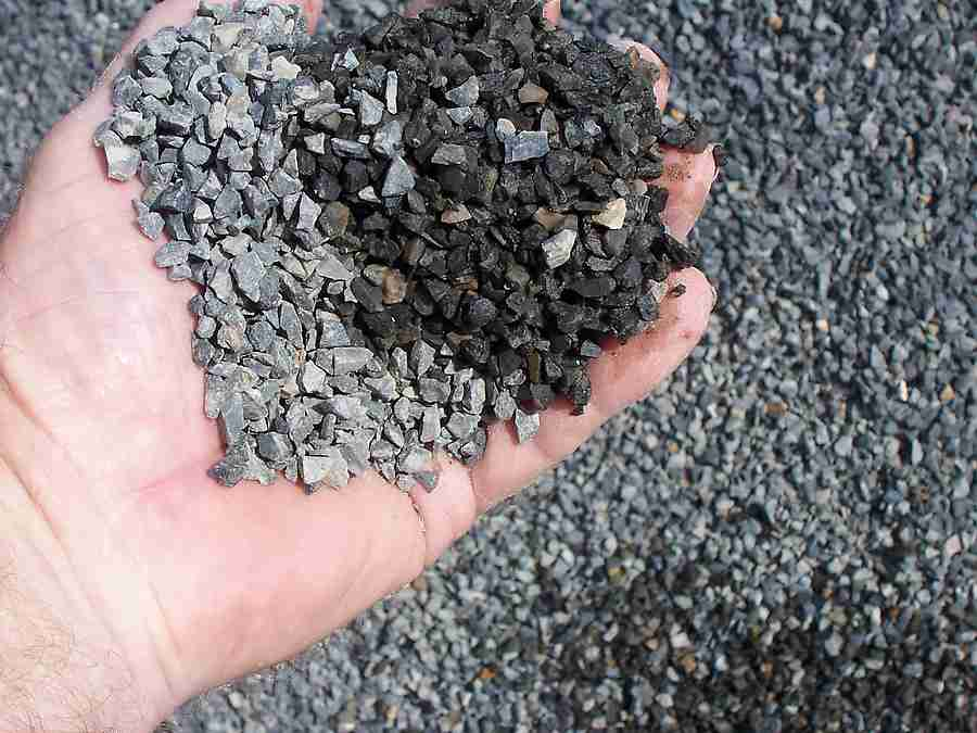 Photograph by Bill Bradley. billbeee 21:38, 24 October 2007 (UTC) Feel free to use it, just credit me as the photographer.You can contact me through my website, higher res. available. my website